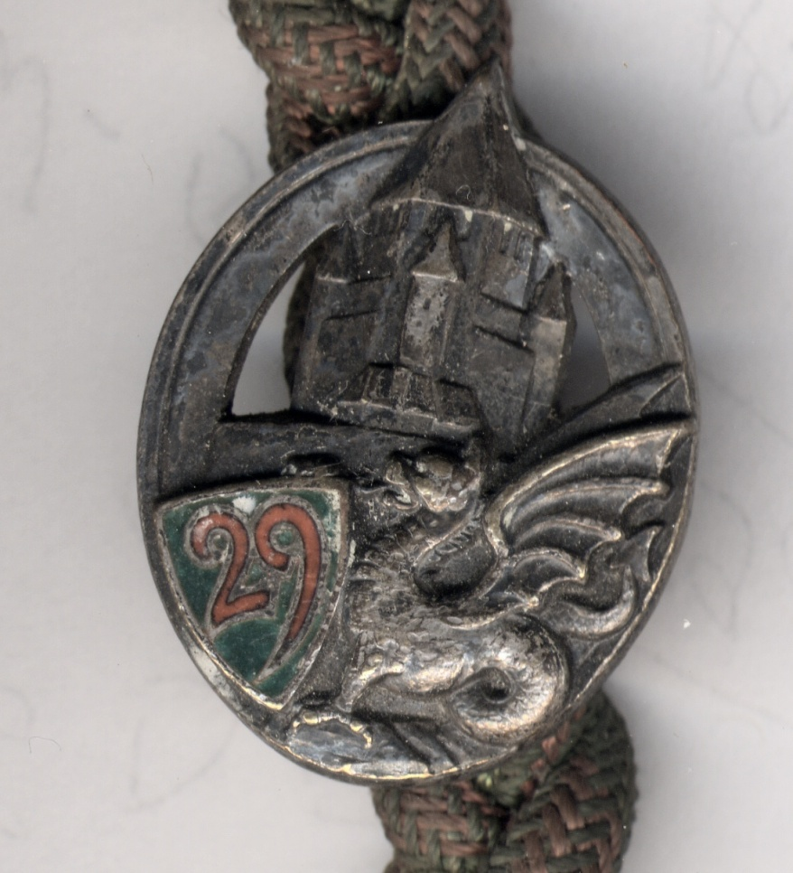 Badge of the 29th Dragons Régiment